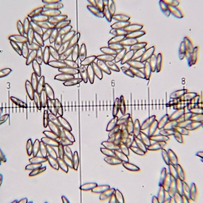 Boletus variipes spores